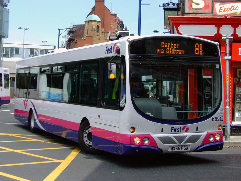 First Manchester's 66912 (MX55 FGA), a Volvo B7RLE/Wright Eclipse Urban, in Manchester on route 81.